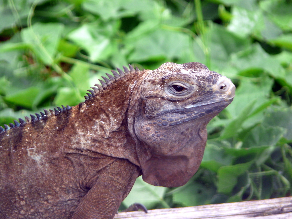 cyclura collei female